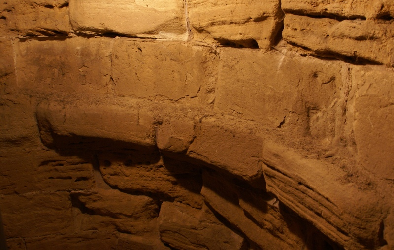 Abernethy Round Tower, Abernethy, Perth and Kinross, Scotland - scarcement ledge in tower